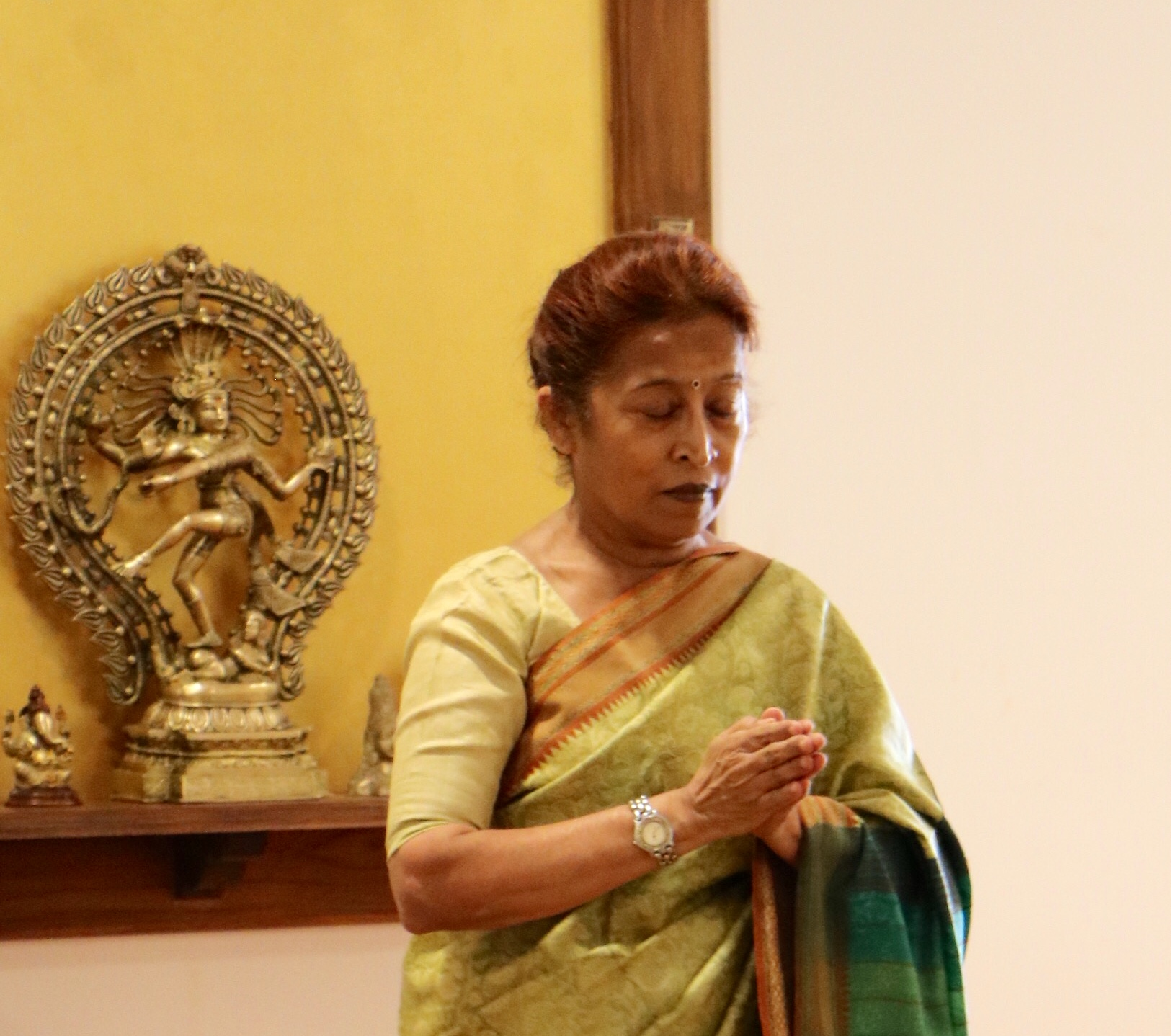 The Image was taken during a recent Kathak workshop in Bangalore conducted by Shama Bhate where tai explained the nuances of Kathak